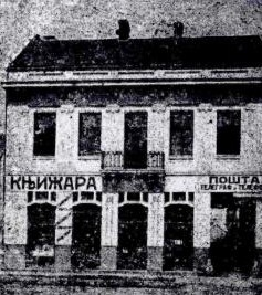 Књижара Чедомира Гајића